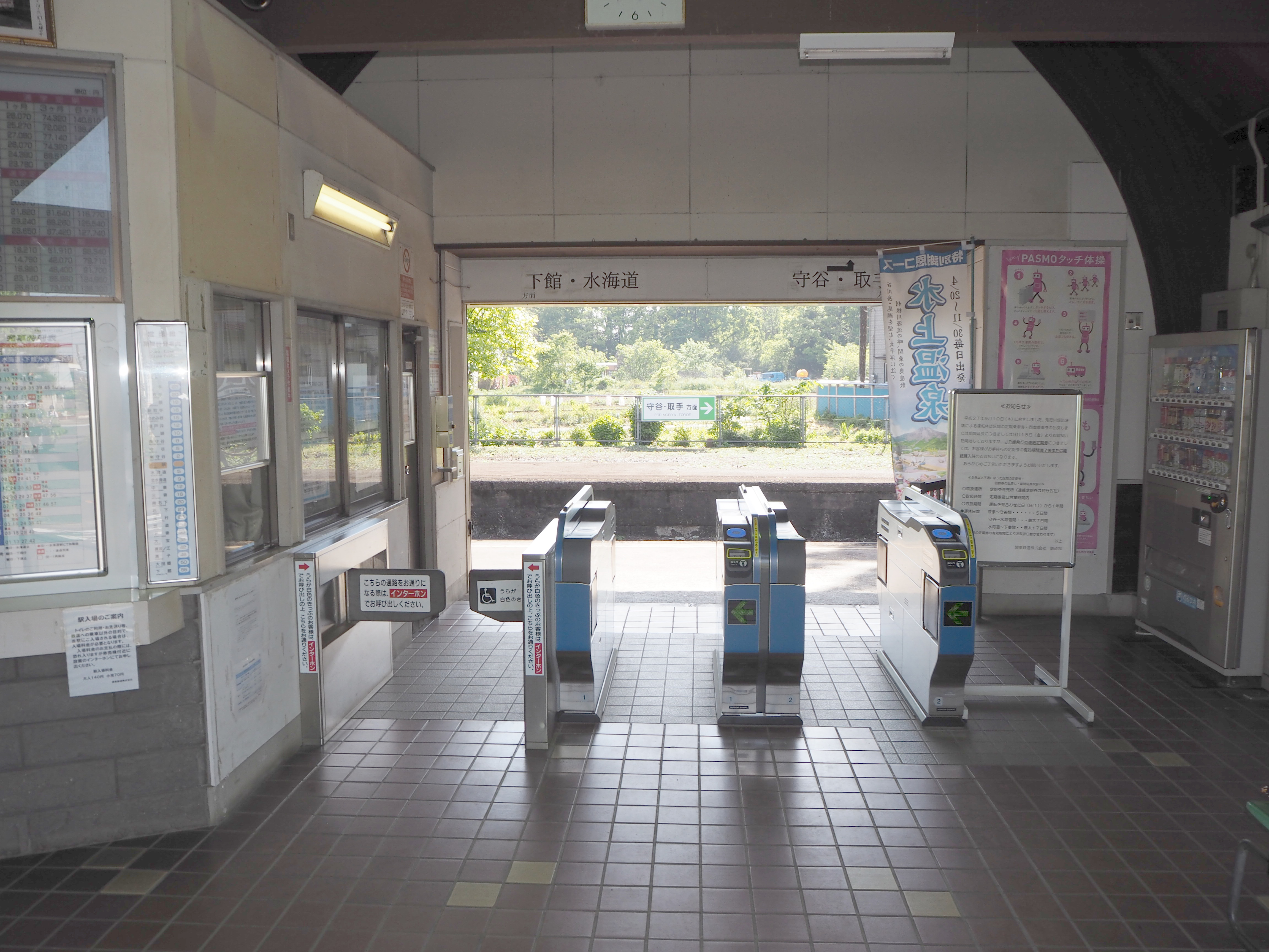 Ticket gate of Kokinu Station